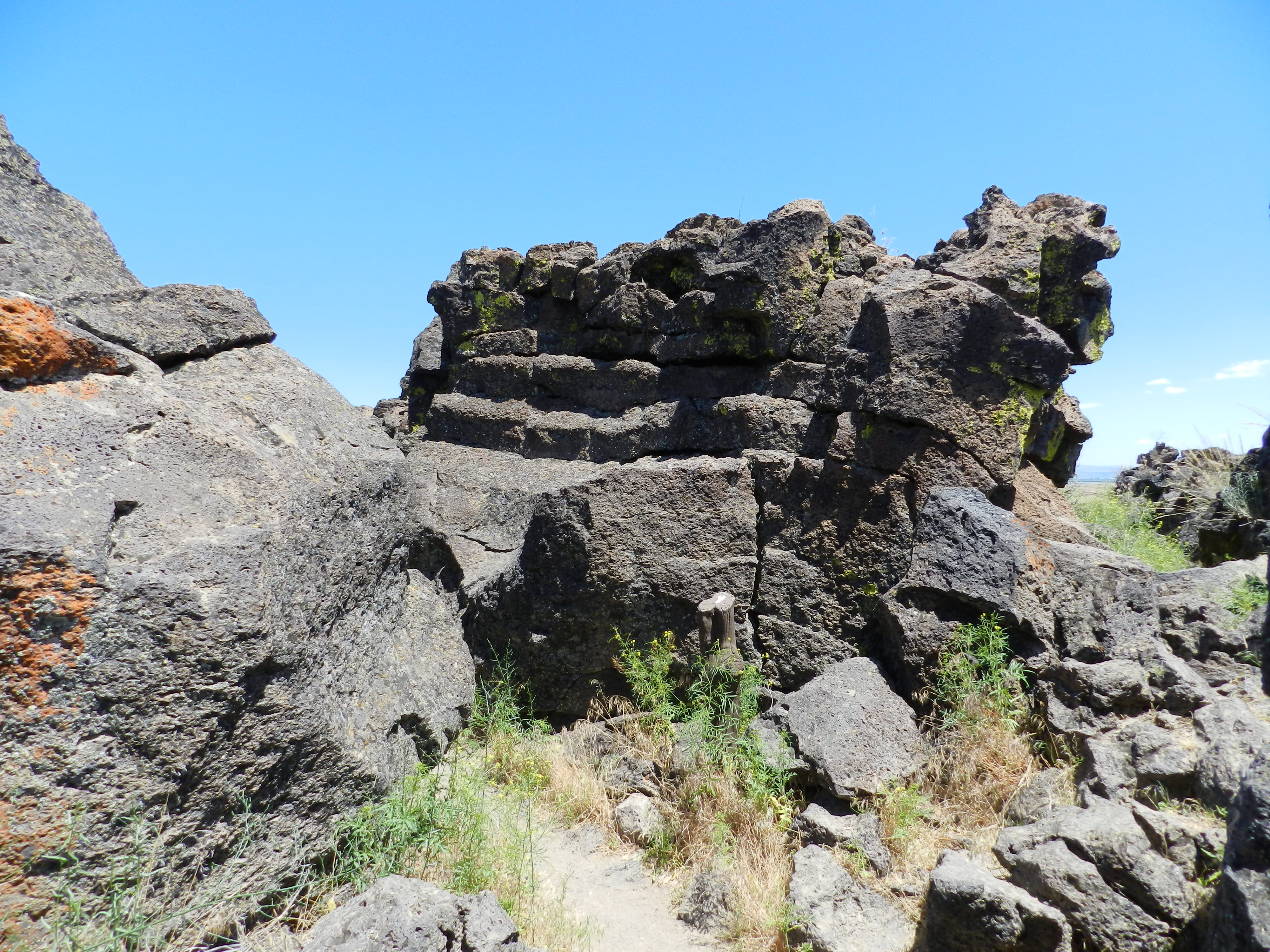 volcanic rock outrcopping at Captain Jack's Stronghold, Lava Beds National Monument, California